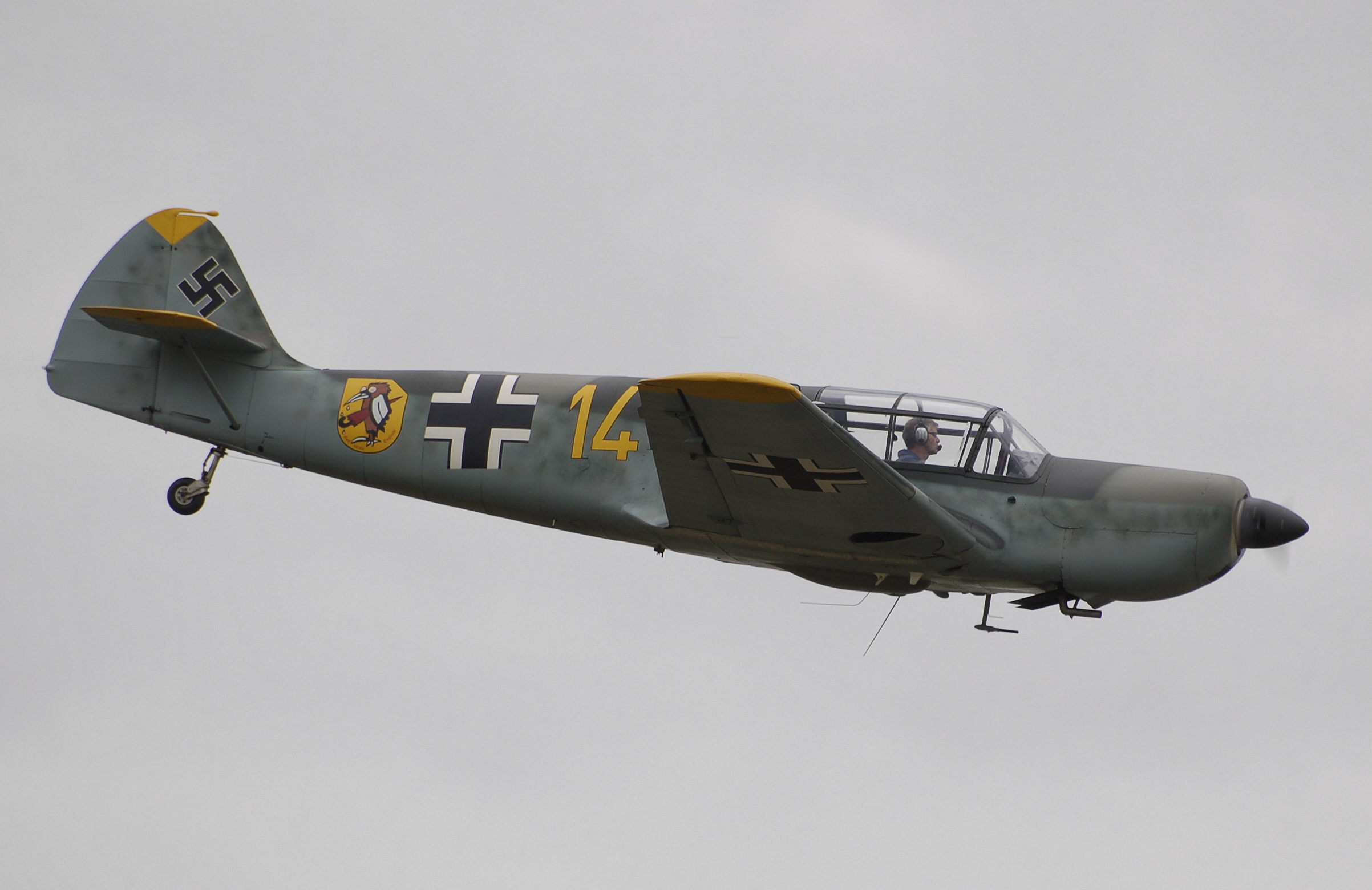 Nord 1002 Pingouin II (originally NJ-C11, now UK registered as G-ATBG) at Kemble Air Day 2008, Kemble Airport, Gloucestershire, England. Built in 1945, this aircraft has been painted to represent an Me Bf 108 Taifun, a type from which it was derived after World War 2. The Pingouin was built by Nord on the production line established in France in early 1942 for construction of the German Bf 108. (Bf means "Bayerische Flugzeugwerke" (Bavarian Aircraft Works).) Please notice: Photographed aircraft is a Nord 1002 but it is not supplied with an original Renault engine. The engine cover is quite different. Be careful. Note that this Nord is not the same company as the Nord Aviation that was set up in 1954. Photographed by Adrian Pingstone in June 2008 and placed in the public domain. Note: This aircraft has been re-engined with a Lycoming O-540 engine and also note it is registered G-ETME (not G-ATBG which still has the original Renault engine and is still marked as NJ-C11).